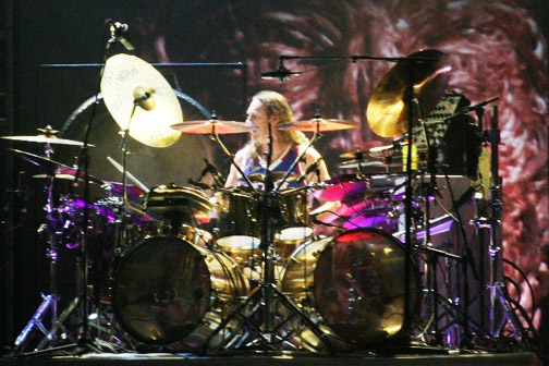 Photo of Danny Carey at a Tool concert.